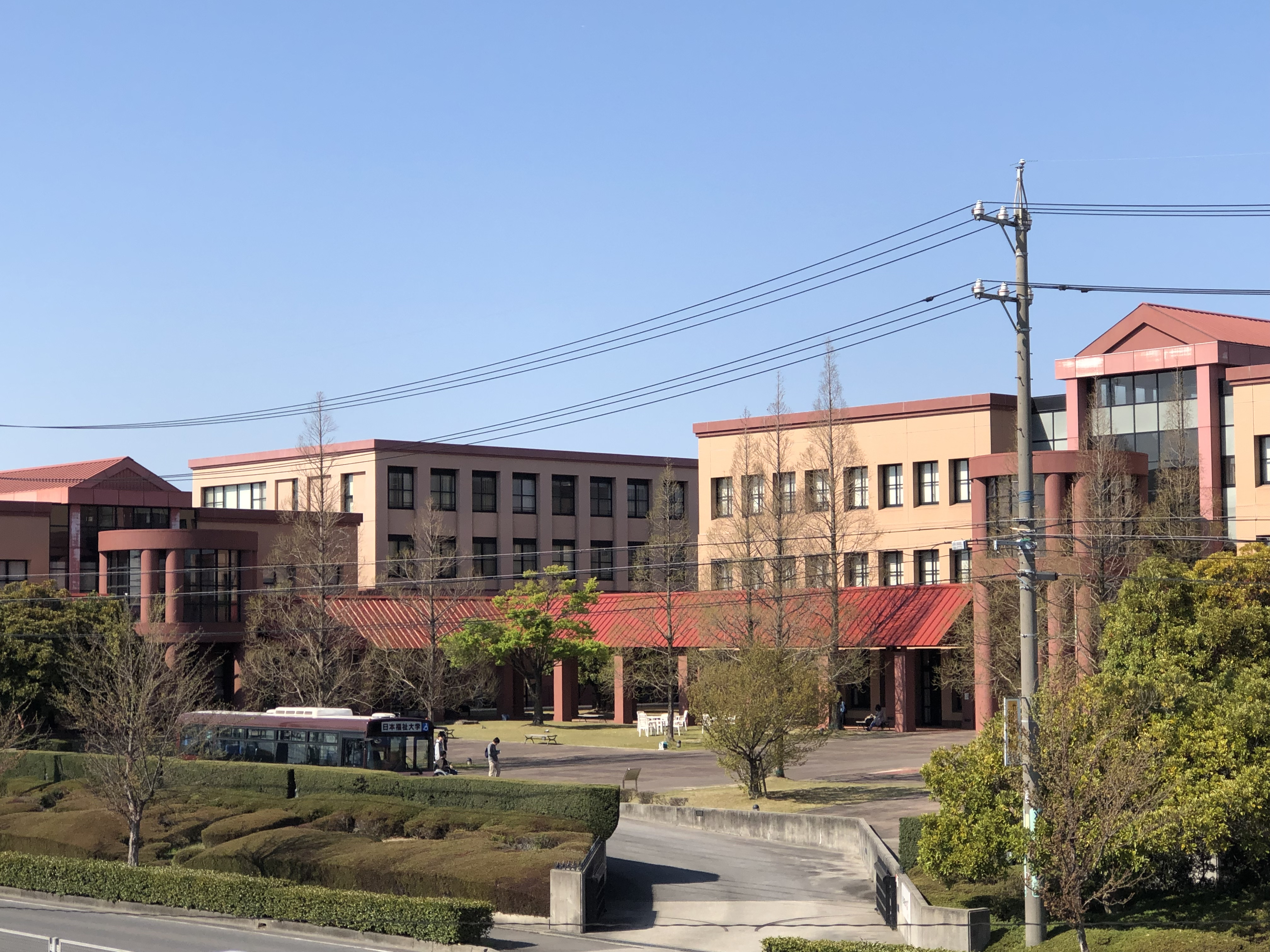 HandaCampus of NihonFukushiUniversity